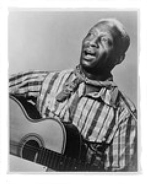 Huddie Ledbetter (Lead Belly), half-length portrait, facing left, holding guitar / World Telegram & Sun photo by Austin Wilder.